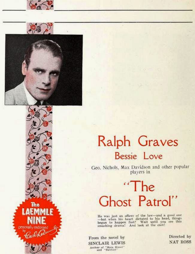 Advertisement for the American romantic melodrama film The Ghost Patrol (1923) with Ralph Graves, on page 26 of the December 2, 1922 Universal Weekly.